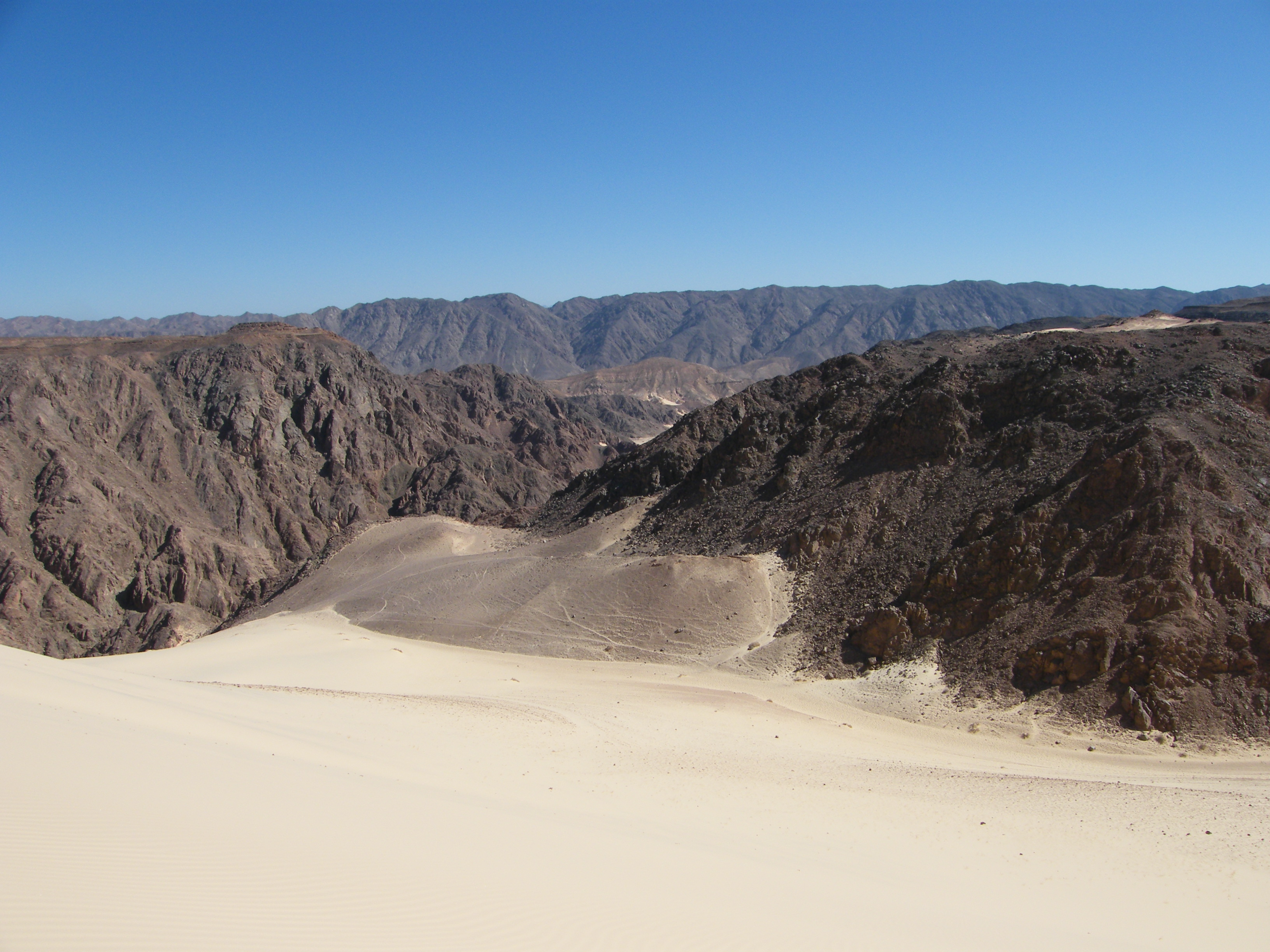 This is a photograph taken by me in the Sinai Peninsula, south-west of Mount Sinai